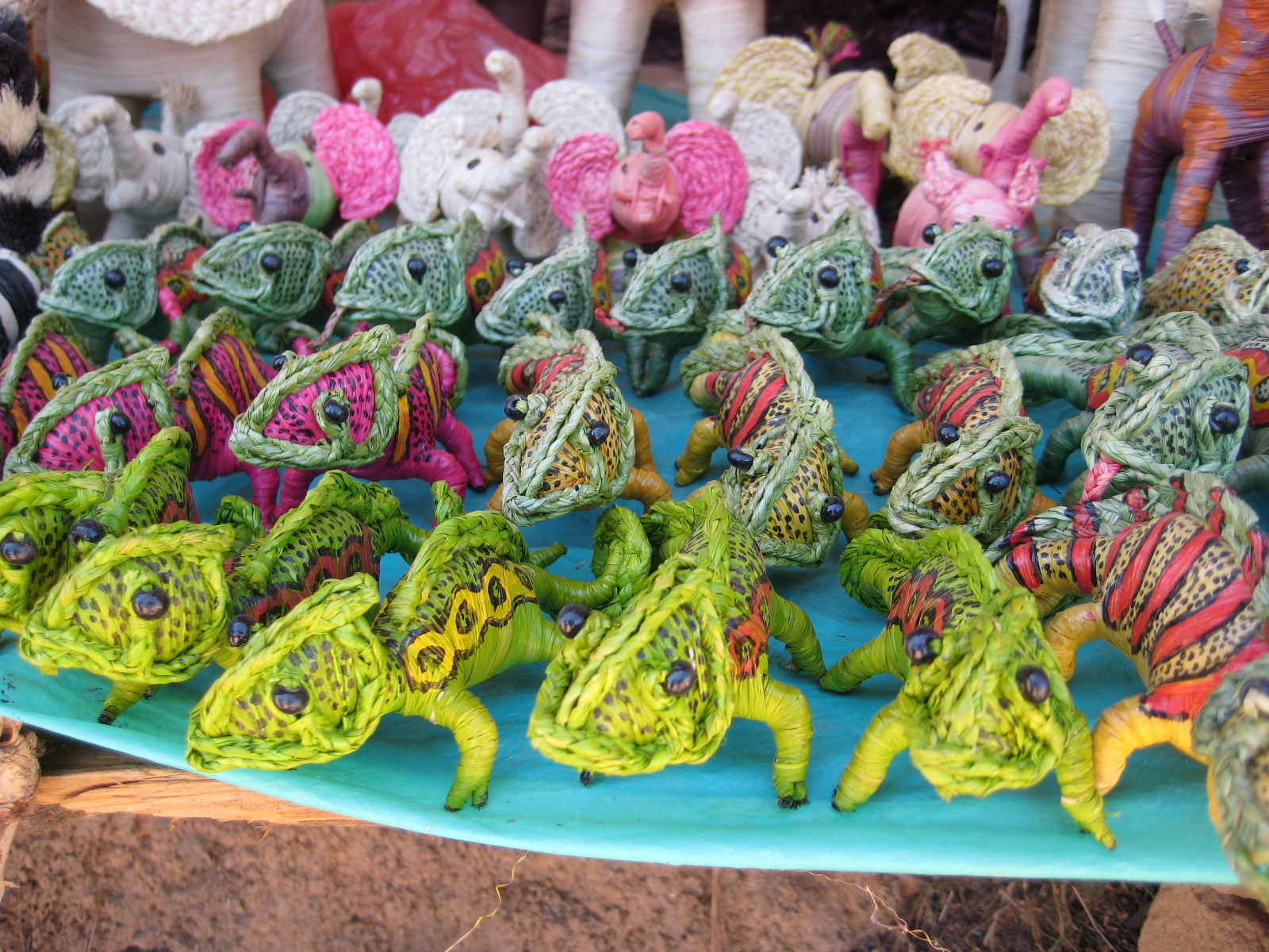 Raffia animals for sale at a stall, created by artisans in Madagascar